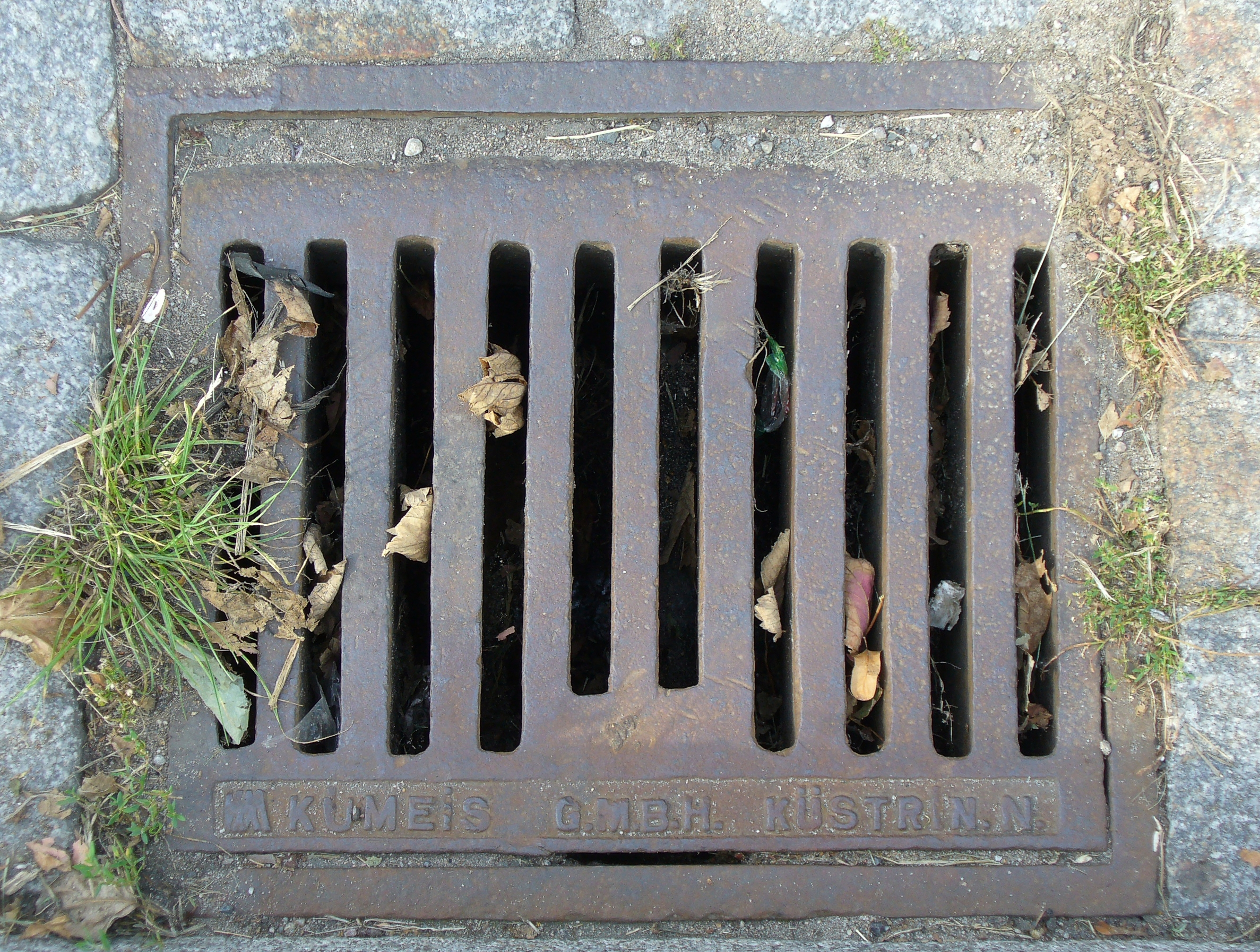 Kostrzyn (Küstrin) - old german strom drain